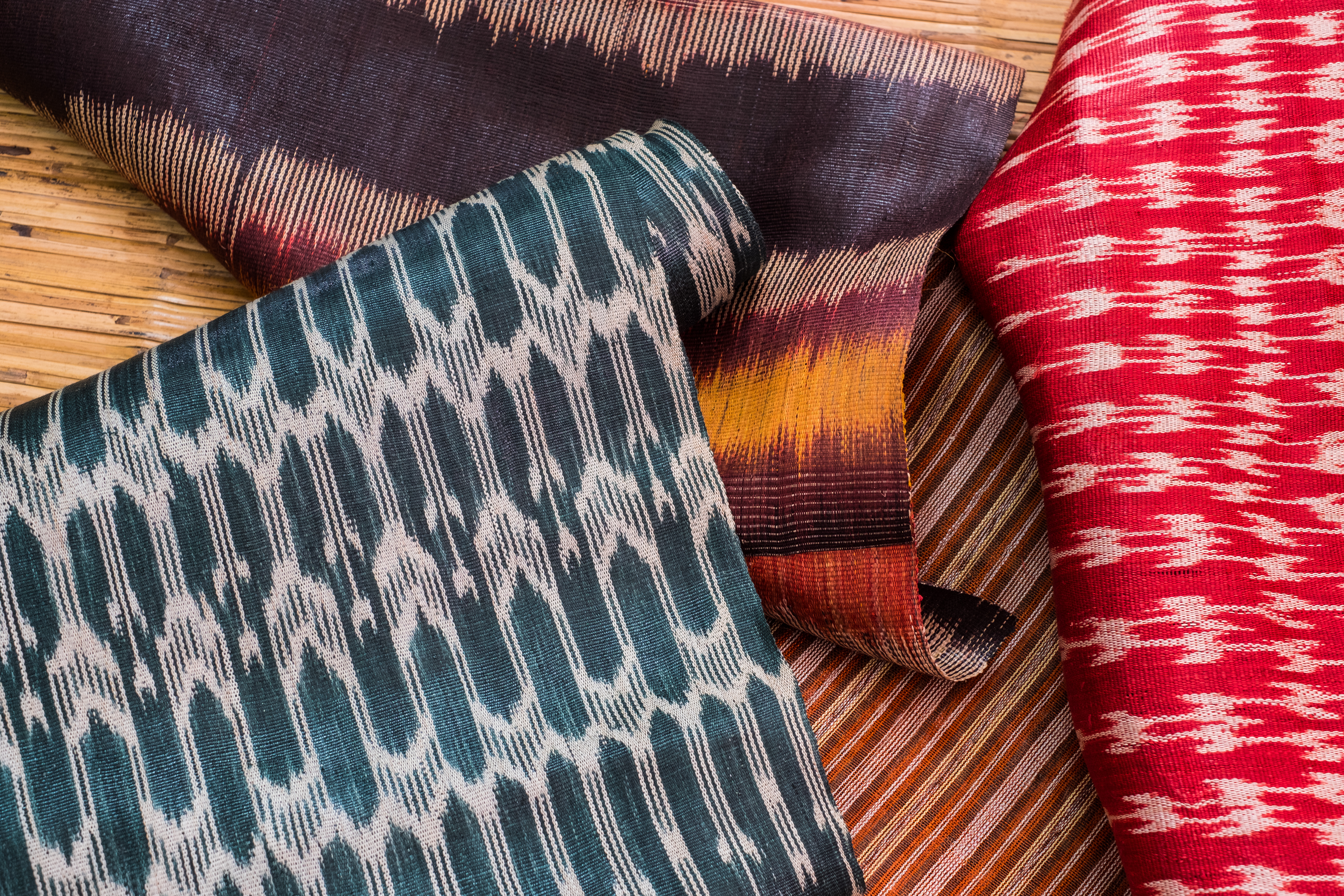 July 2017. T'nalak, aka "Dream Cloth", is a tradition and spirit-infused cloth woven from abaca fibers by the T'boli "Dream Weavers" and represents natural patterns 'seen' by the weavers in their dreams after meditating and praying. T'nalak production is a labour intensive process requiring a knowledge of a range of skills learned from a young age by the women of the tribe. First, abaca fiber is stripped from the abaca tree, cleaned, dried and separated into strands. These strands are then carefully selected, hand tied and rolled into balls. Natural vegetable dyes produced by the T'boli weavers themselves are used to stain these hand spun abaca fibers. The T'nalak is then woven, usually in tones of red, brown and black, with the end product requiring months of work to produce a single, unique weaving. The T'boli are an indigenous peoples of South Cotabato in Southern Mindanao. The Non-Timber Forest Products Exchange Program (NTFP) advocates for and supports indigenous enterprises using non-timber forest resources. The Manila showroom features fairly-traded value-added products from across the Philippines. Quezon City, Metro Manila, Philippines. Photograph by Jason Houston for USAID